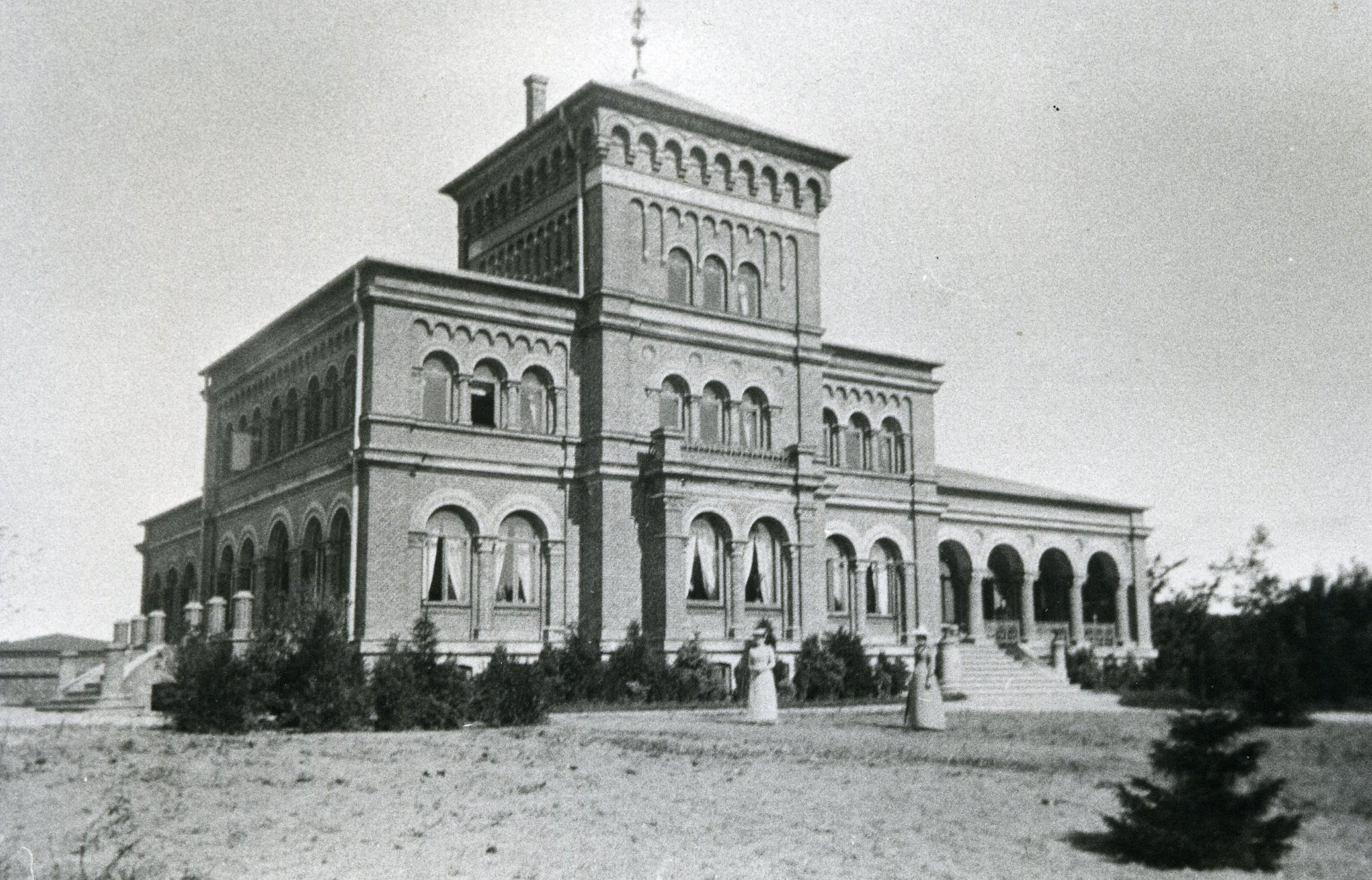 The managing director's villa at the brickyard Sølyst Teglværk in Nivå, Denmark. Designed 1885 by Ferdinand Vilhelm Jensen, demolished 1976.